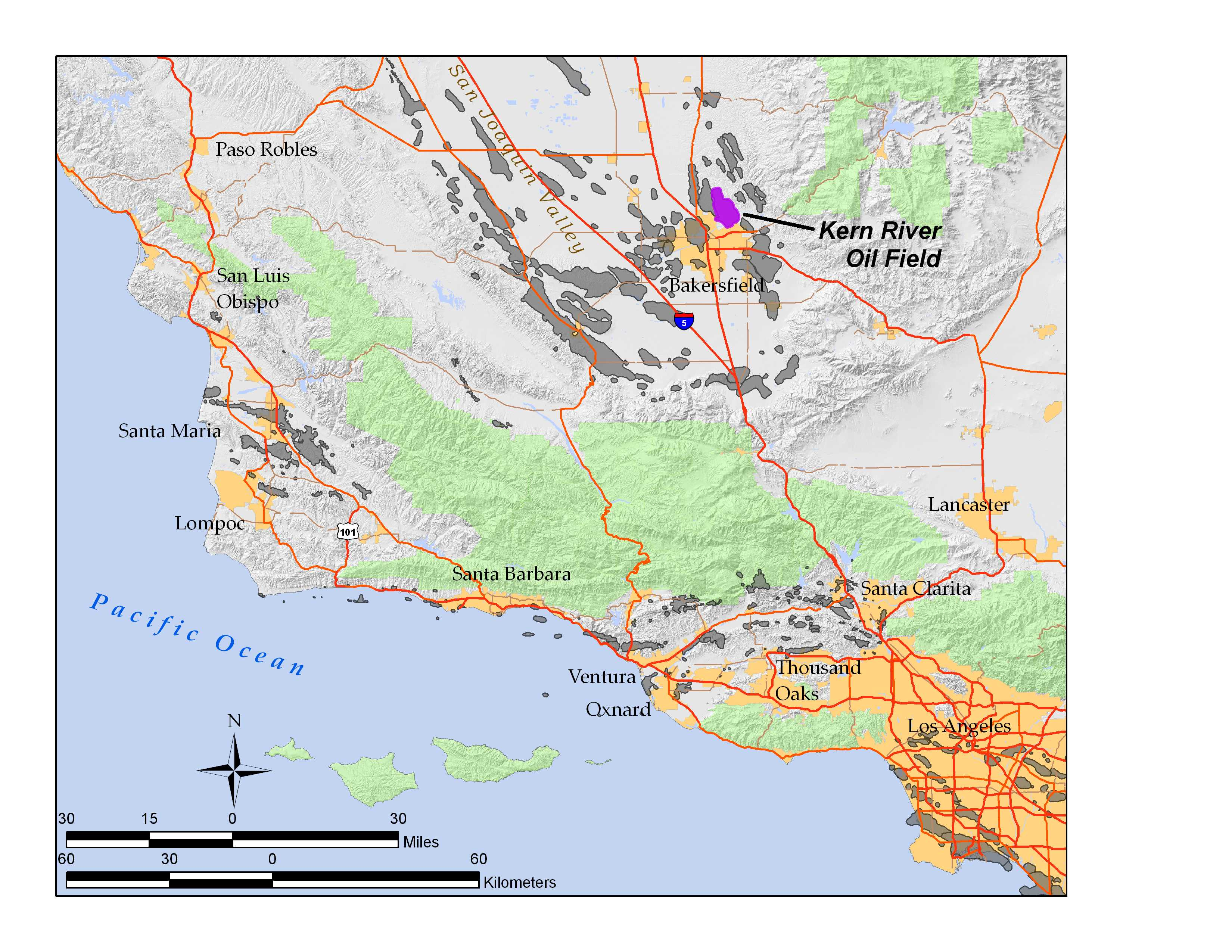 Location of Kern River Oil Field in southern and central California. Map made by User:Antandrus in ArcGIS 9.2. All data shown on this map is in the public domain. Sources include USGS National Elevation Dataset; highways and urban areas from the Census 2000 TIGER files; federal lands from US Dept of the Interior; oil field boundaries from California Dept of Conservation, Division of Oil, Gas, and Geothermal Resources (DOGGR).